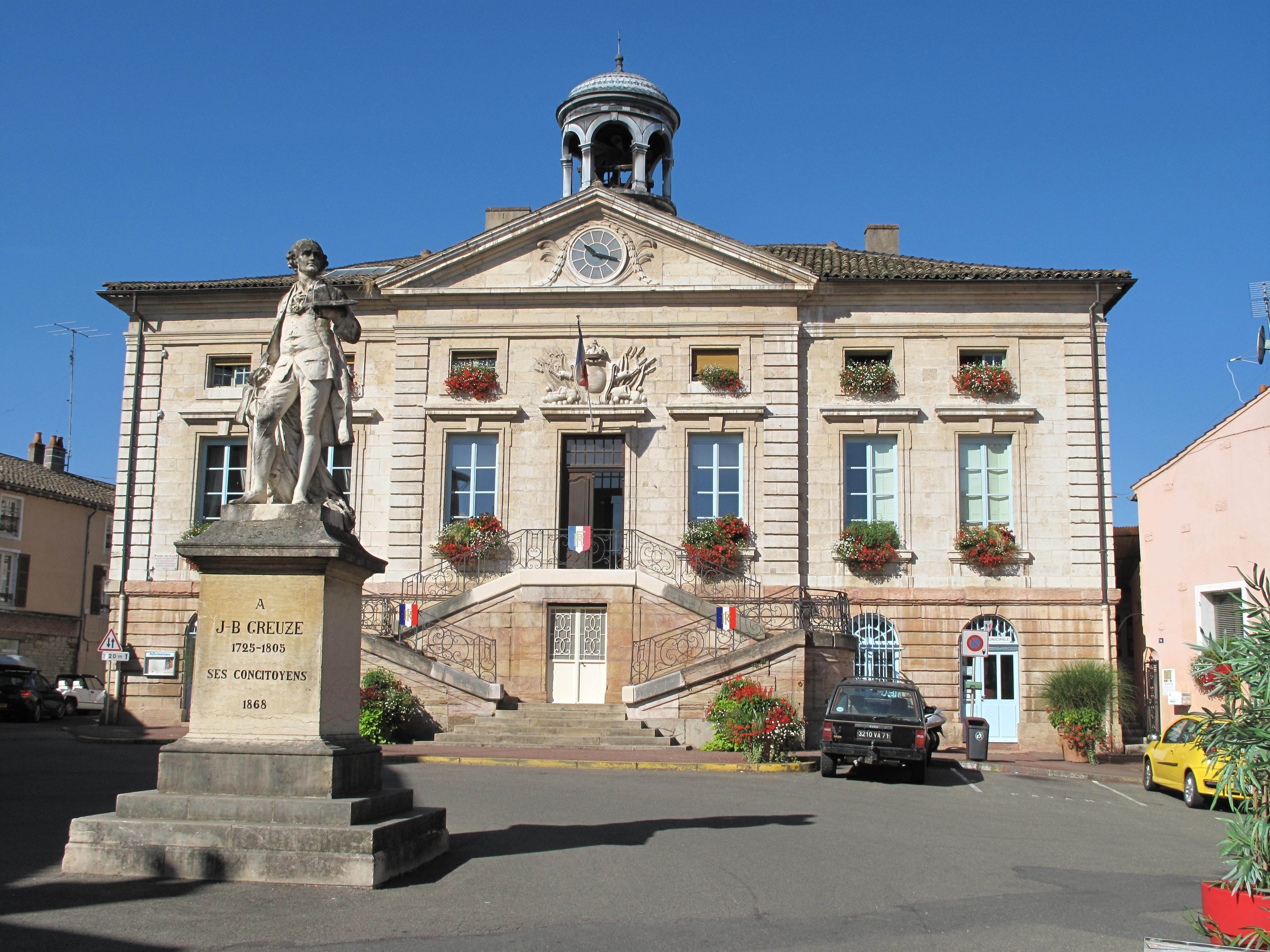 The square of the townhall of Tournus with the statue of the French painter Greuze (Saône-et-Loire, France).